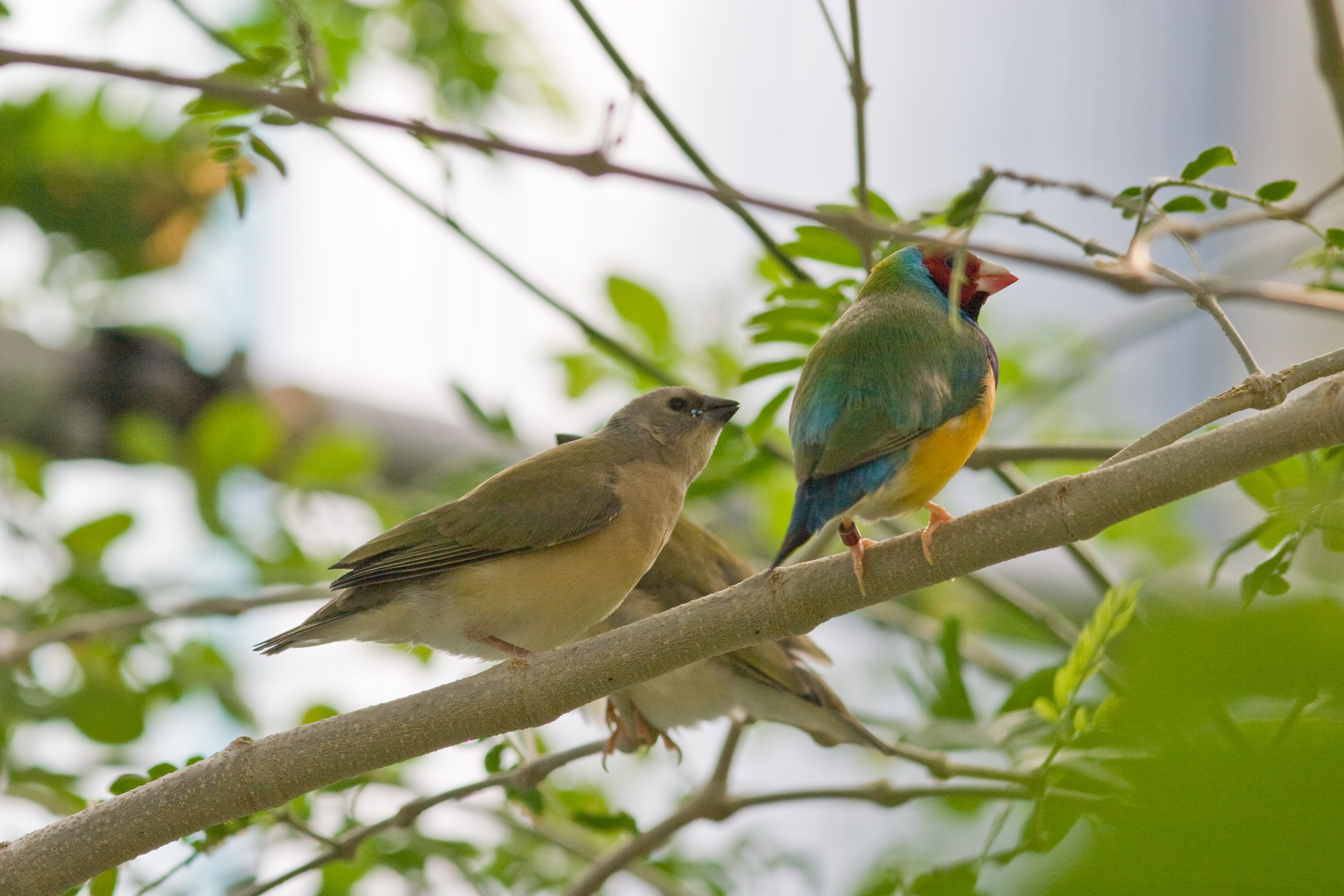 Gouldian Finches at Artis Zoo, Netherlands. A adult male with chicks.